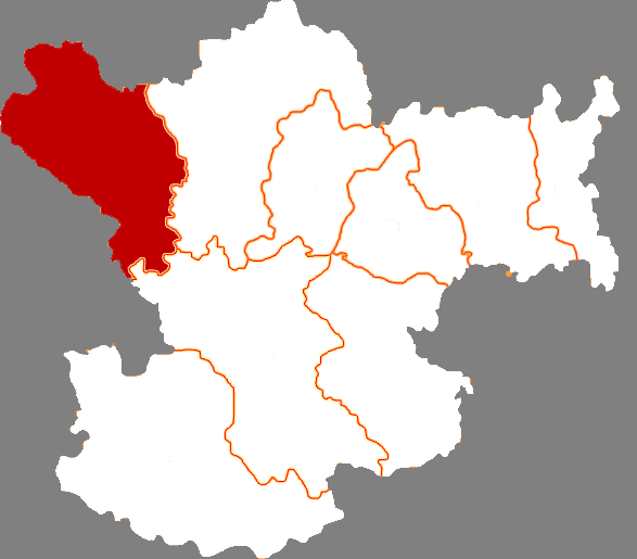 Location of Tanchang county in Longnan city, China